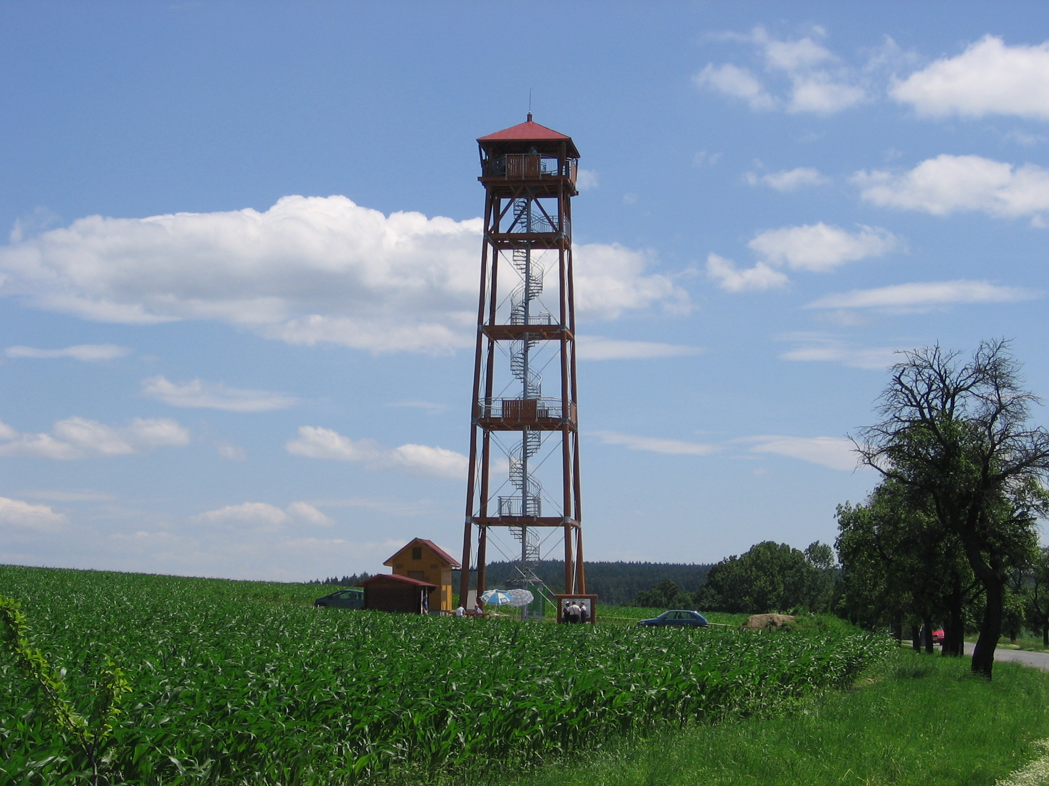 Observation tower Vrbice (Rychnov nad Kněžnou District, Czech Republic)